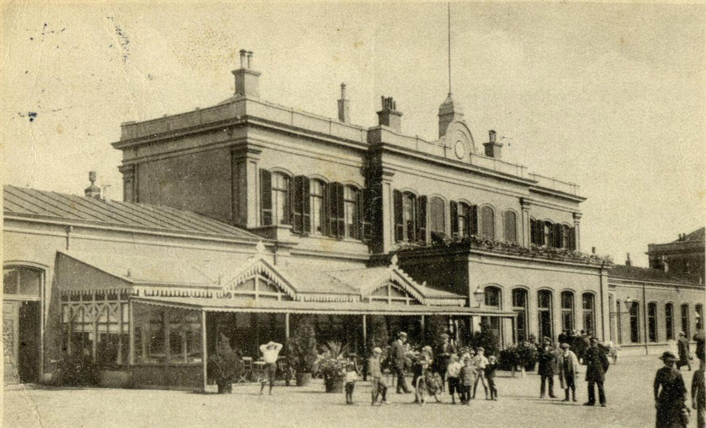 Zutphen railway station, the Netherlands. Postcard ca 1910.